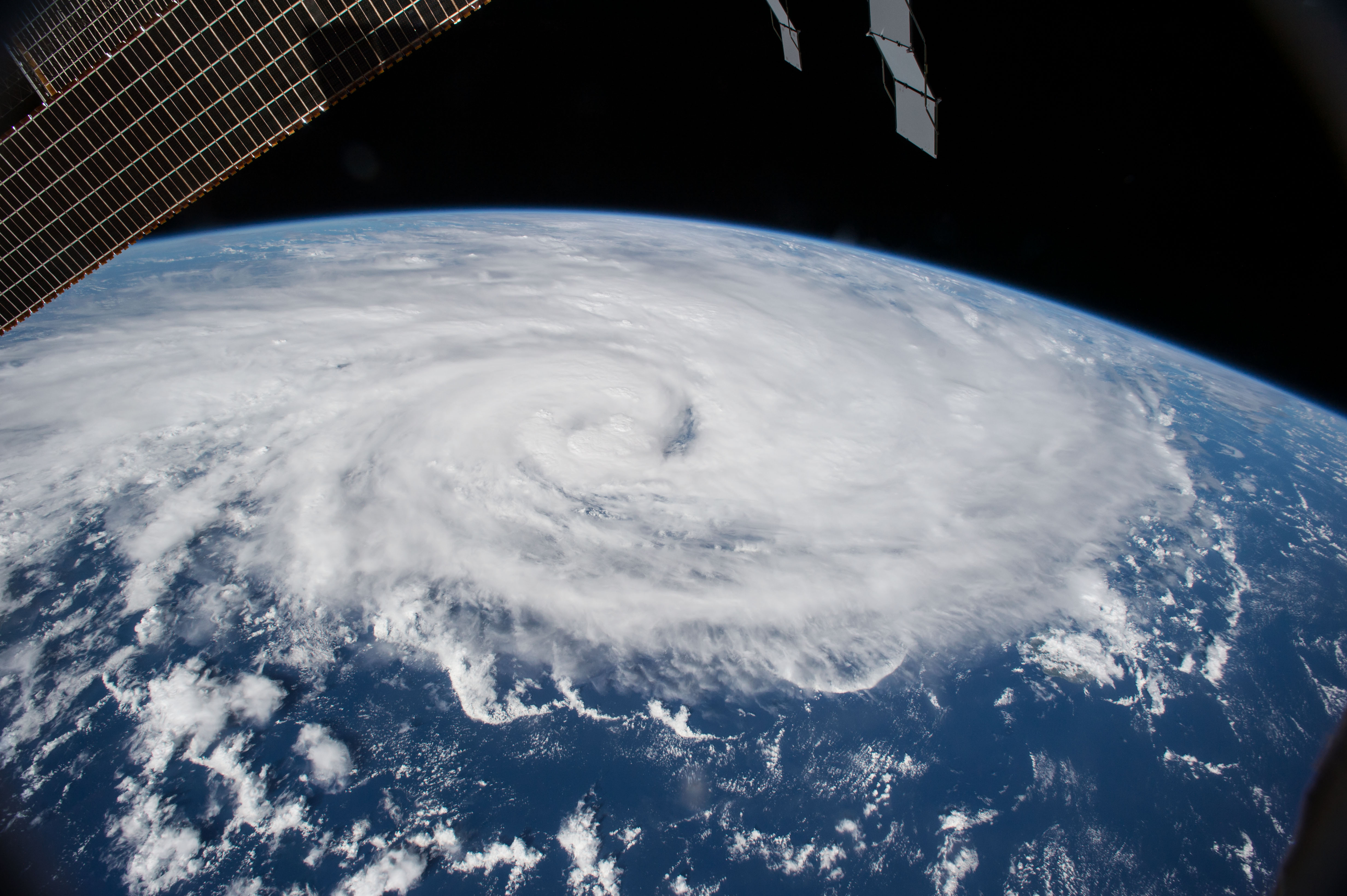 This image of Cyclone Chedza, headed for the Island nation of Madagascar, off the African coast was taken by a member of Expedition 42 on the International Space Station Jan. 11, 2015.